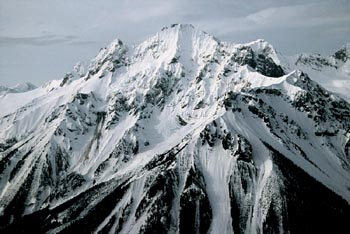 North face of Plinth Peak in the Meager Group